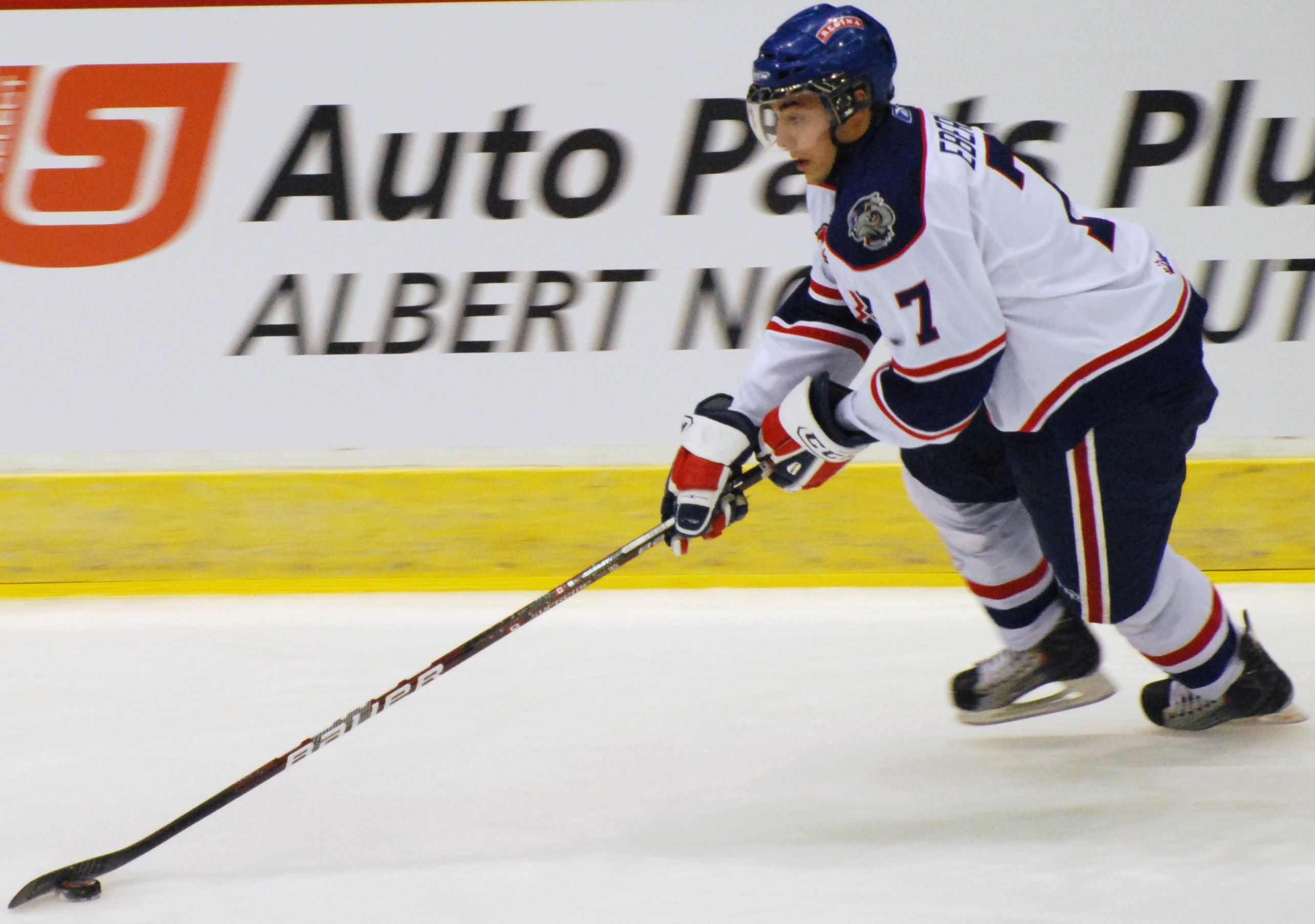 Jordan Eberle during a game against the Moose Jaw Warriors.